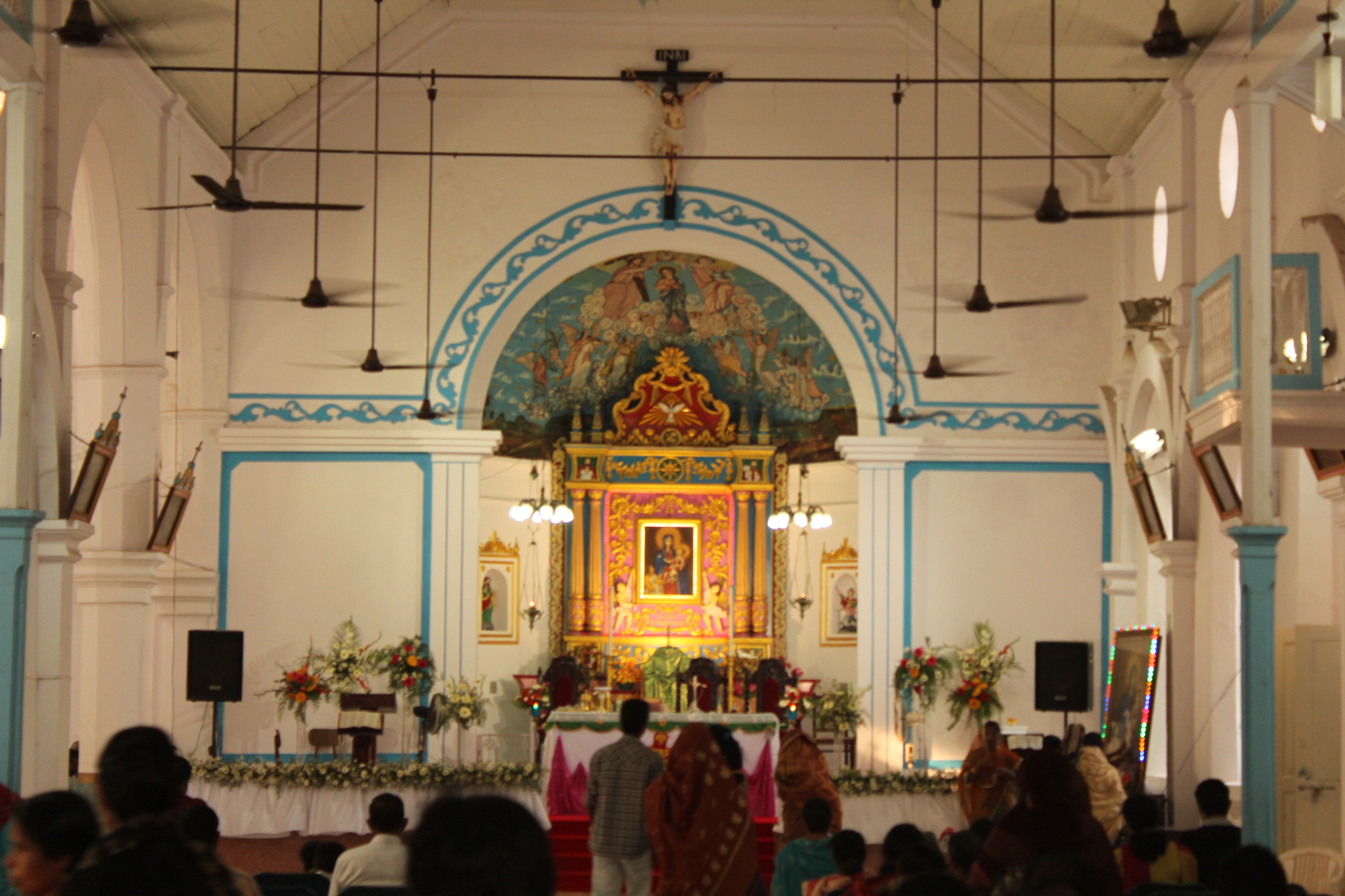 Vallarpadathamma at Vallarpadam Church